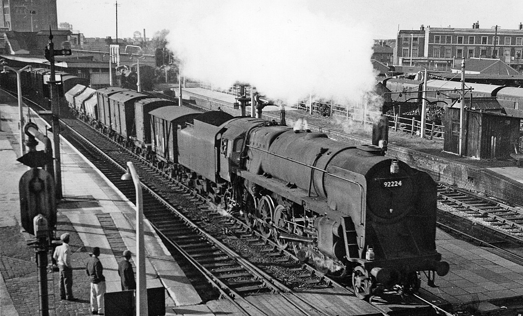 Up freight passing Southall Station. View westward, towards Reading etc.; ex-Great Western main line, Paddington to the West. The train, a Class D partially-fitted freight, is on the Up Relief line - and evidently being admired. The locomotive is BR Standard 9F 2-10-0 No. 92224.